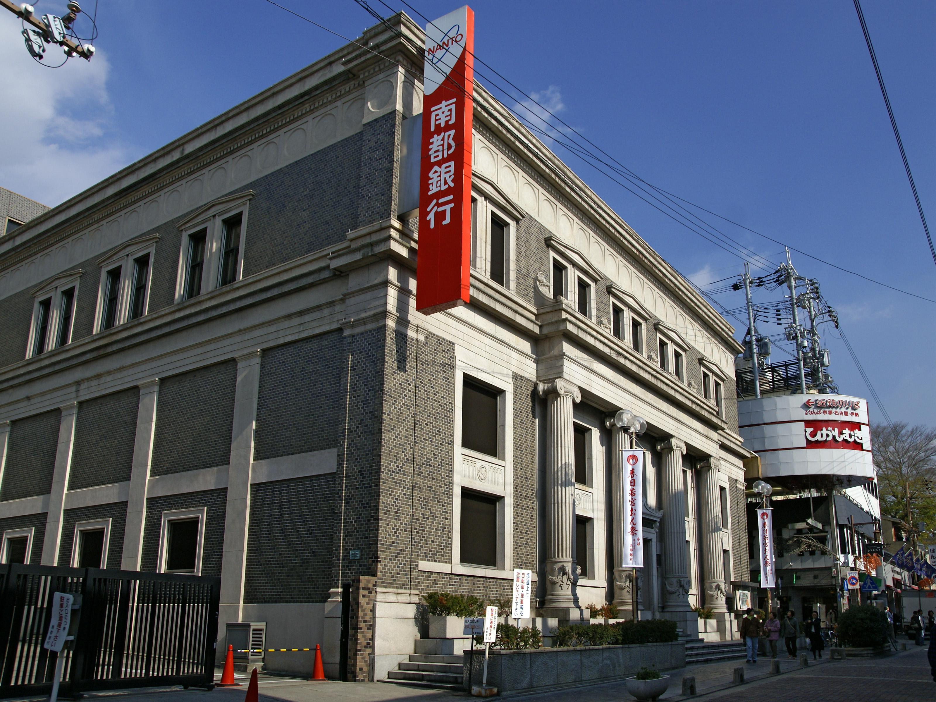 Central branch of Nanto Bank in Nara, Nara prefecture, Japan